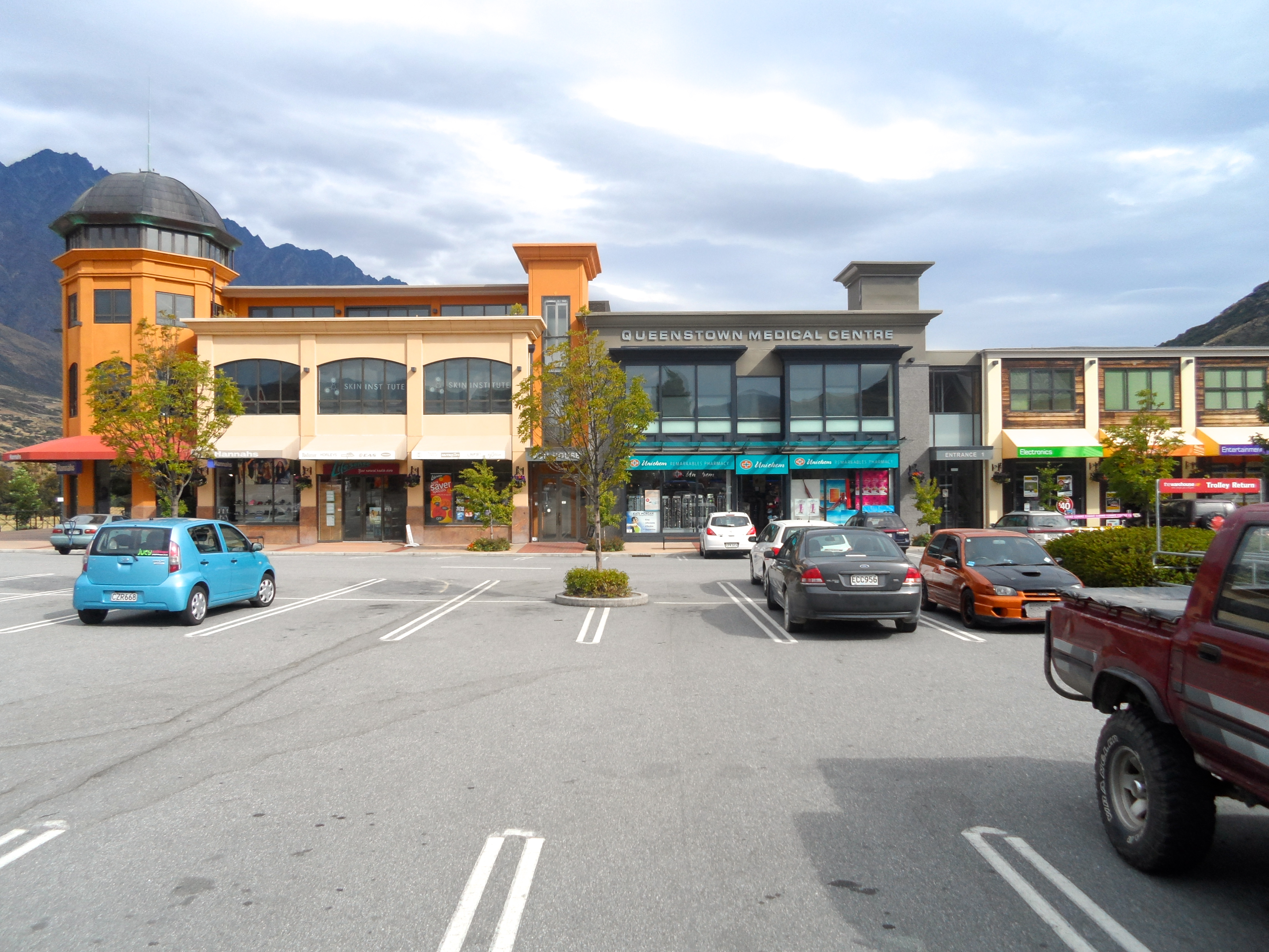 Part of the lower level of the Remarkables Park Town Centre, Frankton, New Zealand. February 2013.